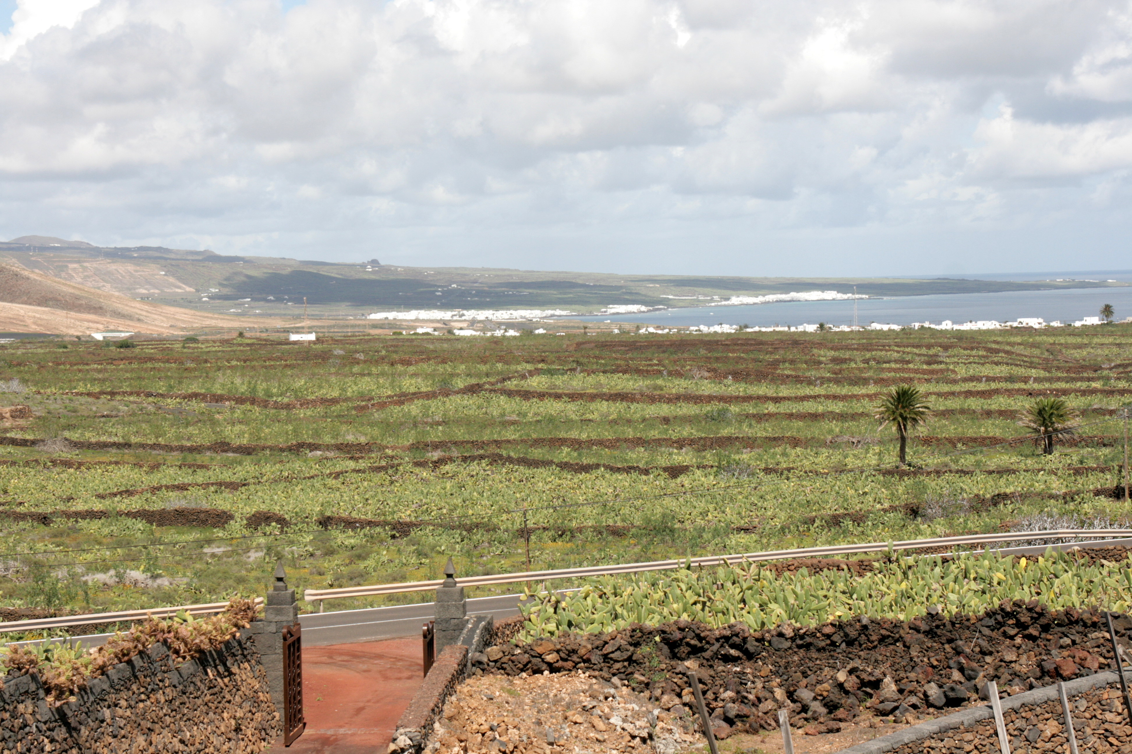 Opuntia plantations for cochenille production along Avenida Garafia in Guatiza, Teguise, Lanzarote, Canary Islands